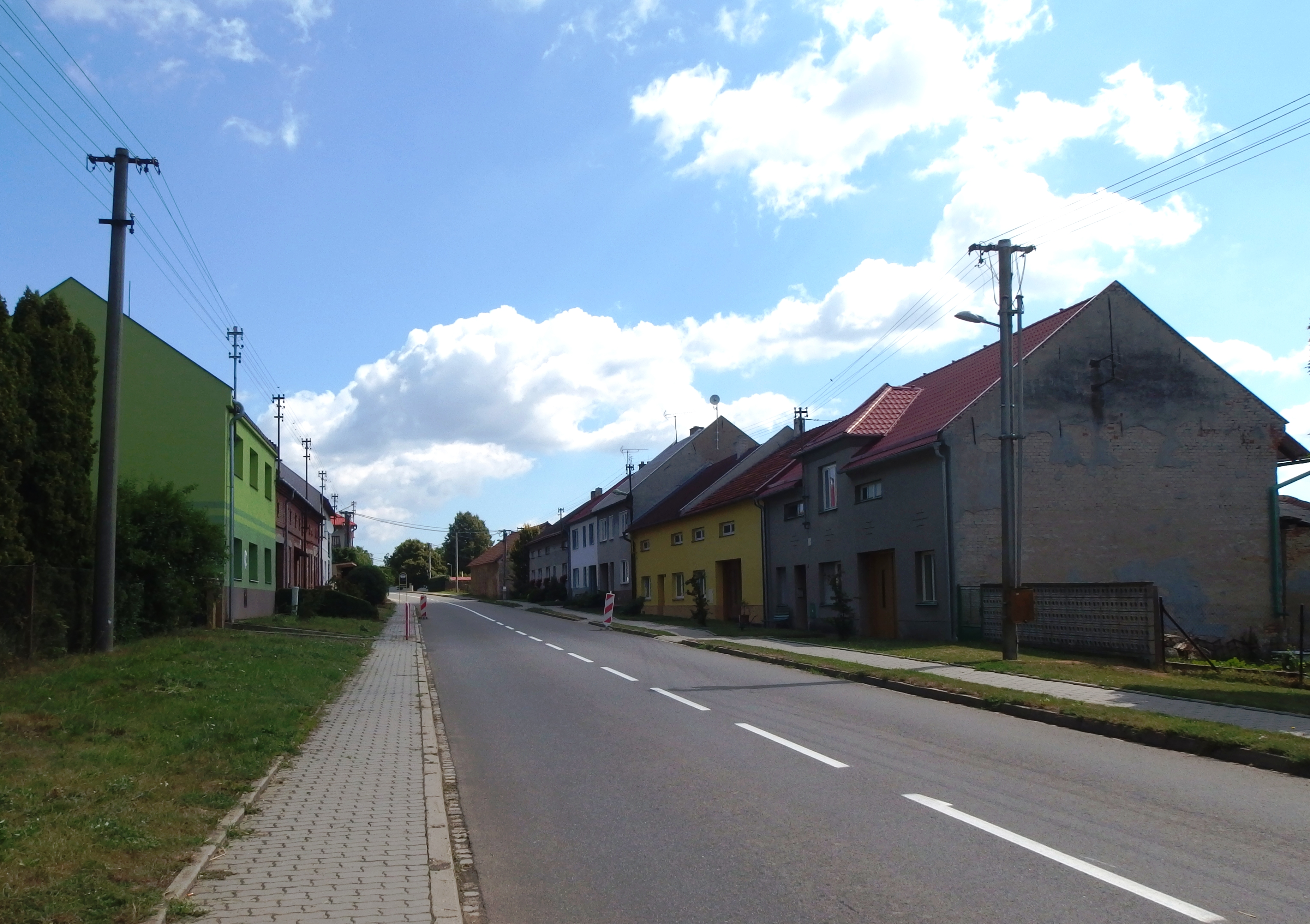 Tučín, Přerov District, Czech Republic.